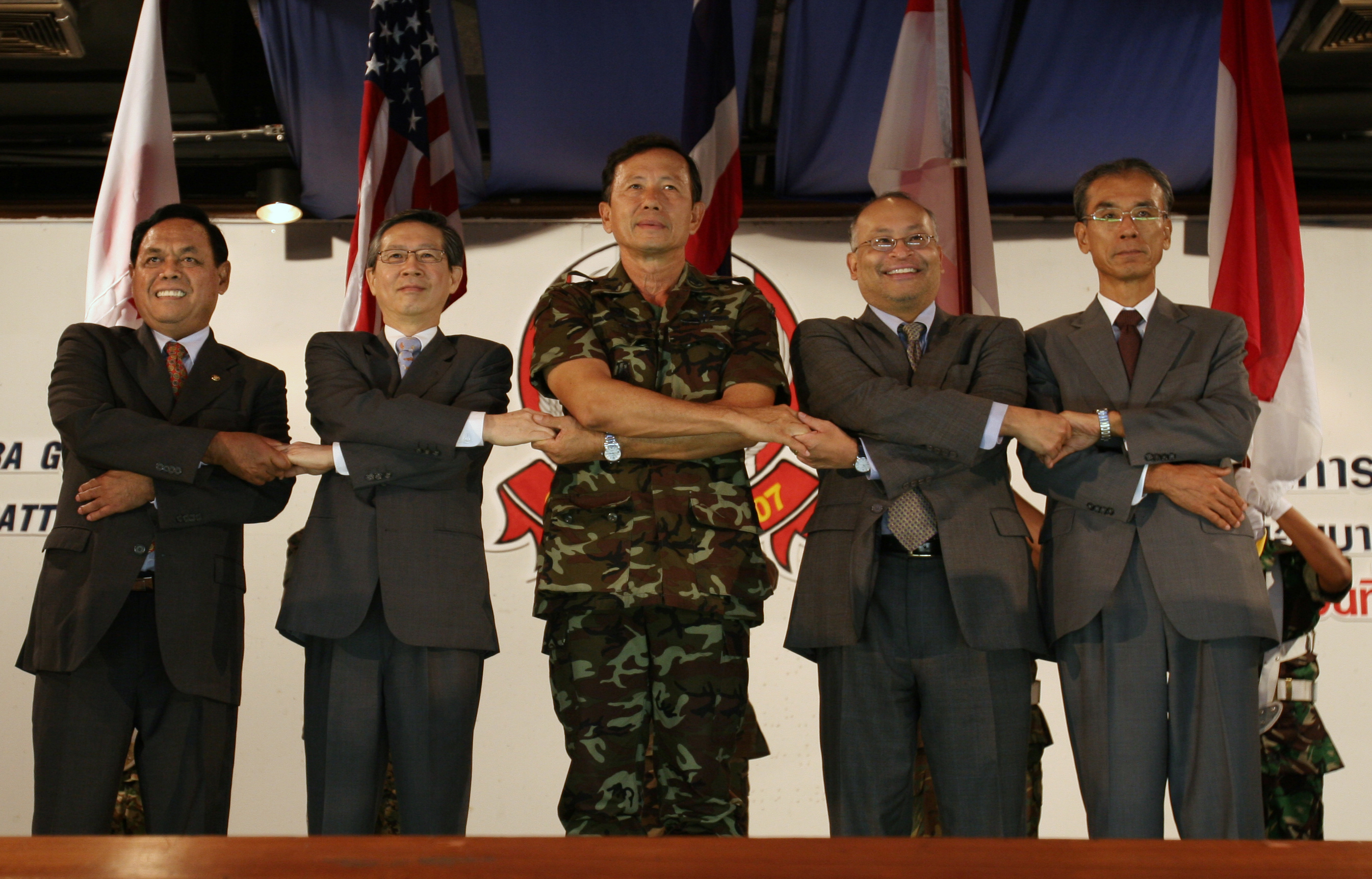 The official party for the combined military exercise "Cobra Gold, 2007" joined hands in a symbol of unity and brotherhood to start the 26th annual exercise during an opening ceremony at the Ambassador City Hotel, Jomtiem, Thailand, May 8. (From left to right) Indonesian Ambassador Ibrahim Yusuf, Singaporean Ambassador Peter Chan Jer Hing, Thailand Supreme Commander General Boonsrang Niumpradit, U.S. Deputy Chief of Mission Alexander A. Arvizu, and Japanese Ambassador Hideaki Kobayashi.